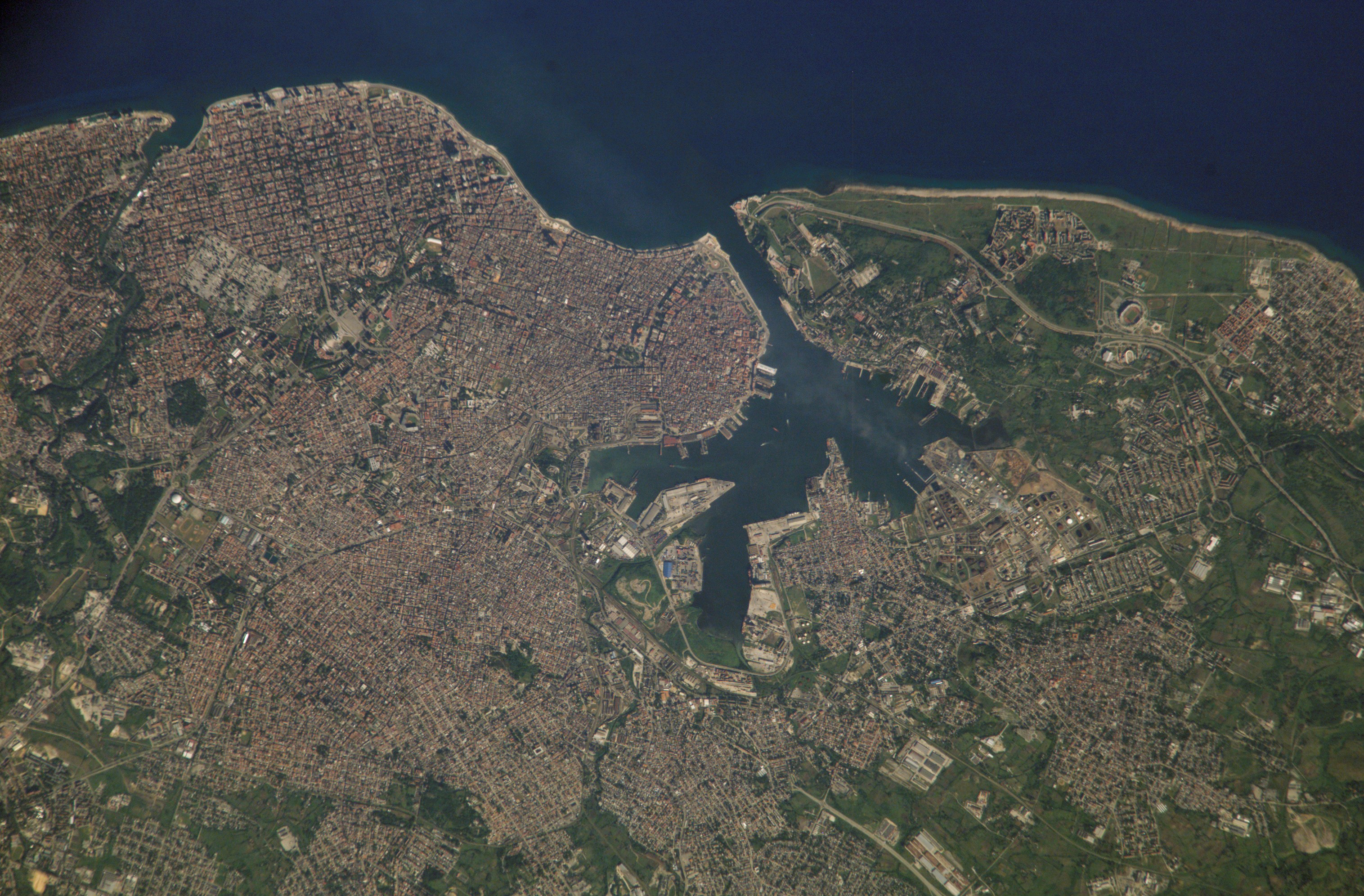 Satellite photo of Havana, Cuba. It covers the area from the Almenares River to the Bay of Havana, and eastward.